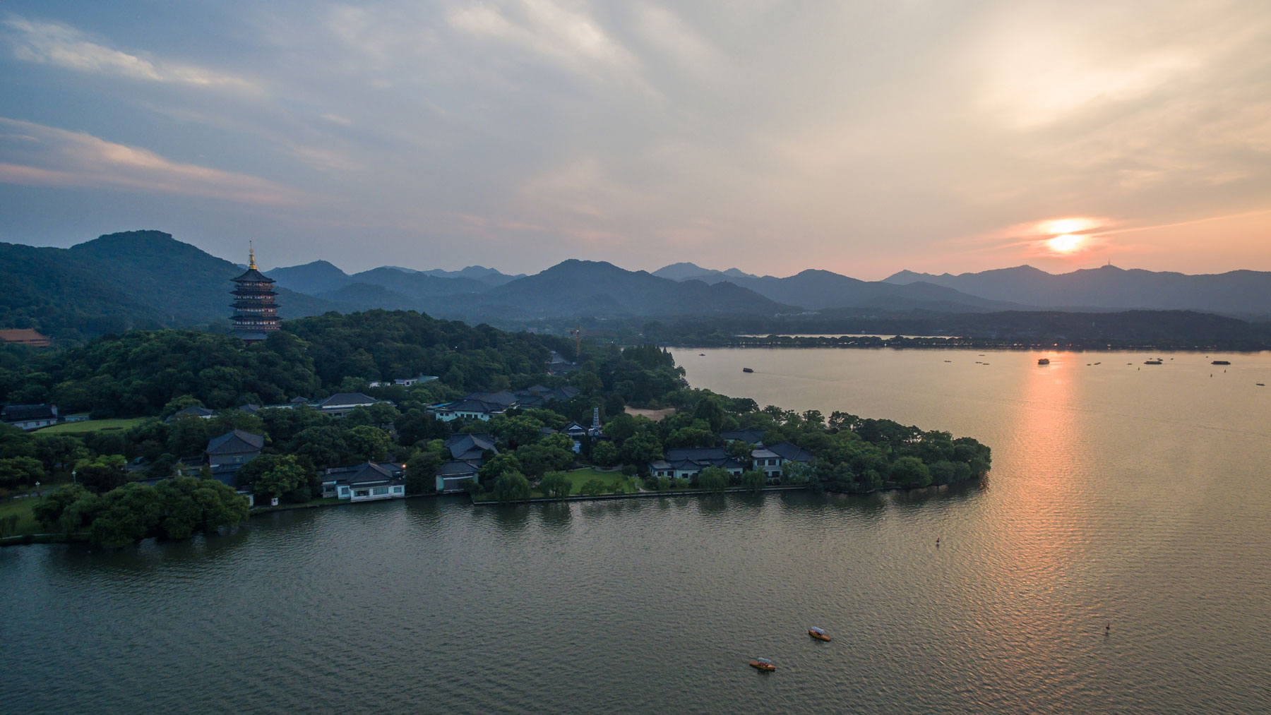 Leifang Pagoda Sunset (